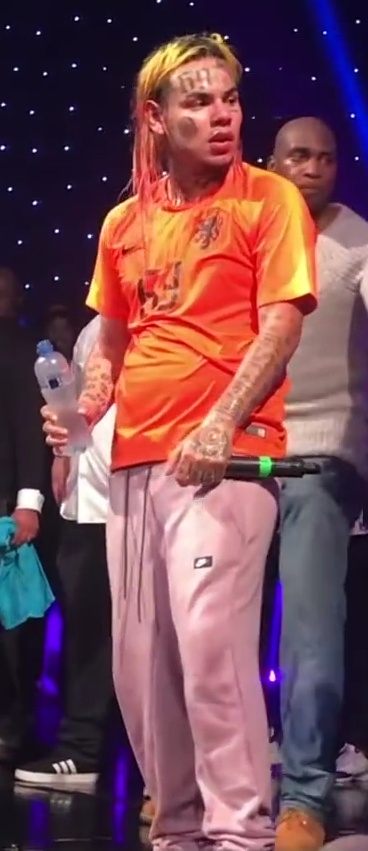 6ix9ine at a concert